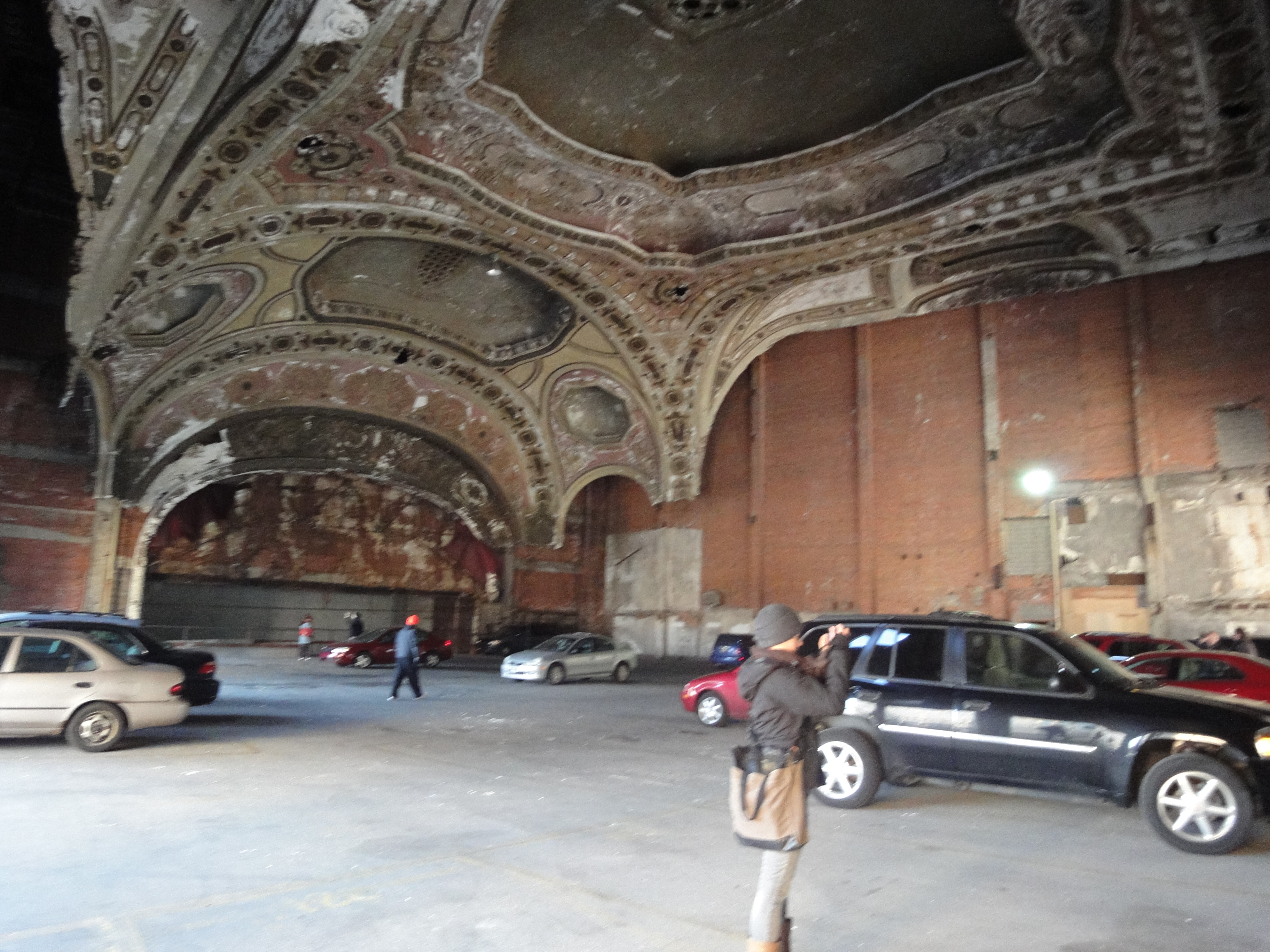 Michigan Theatre Nov 2010